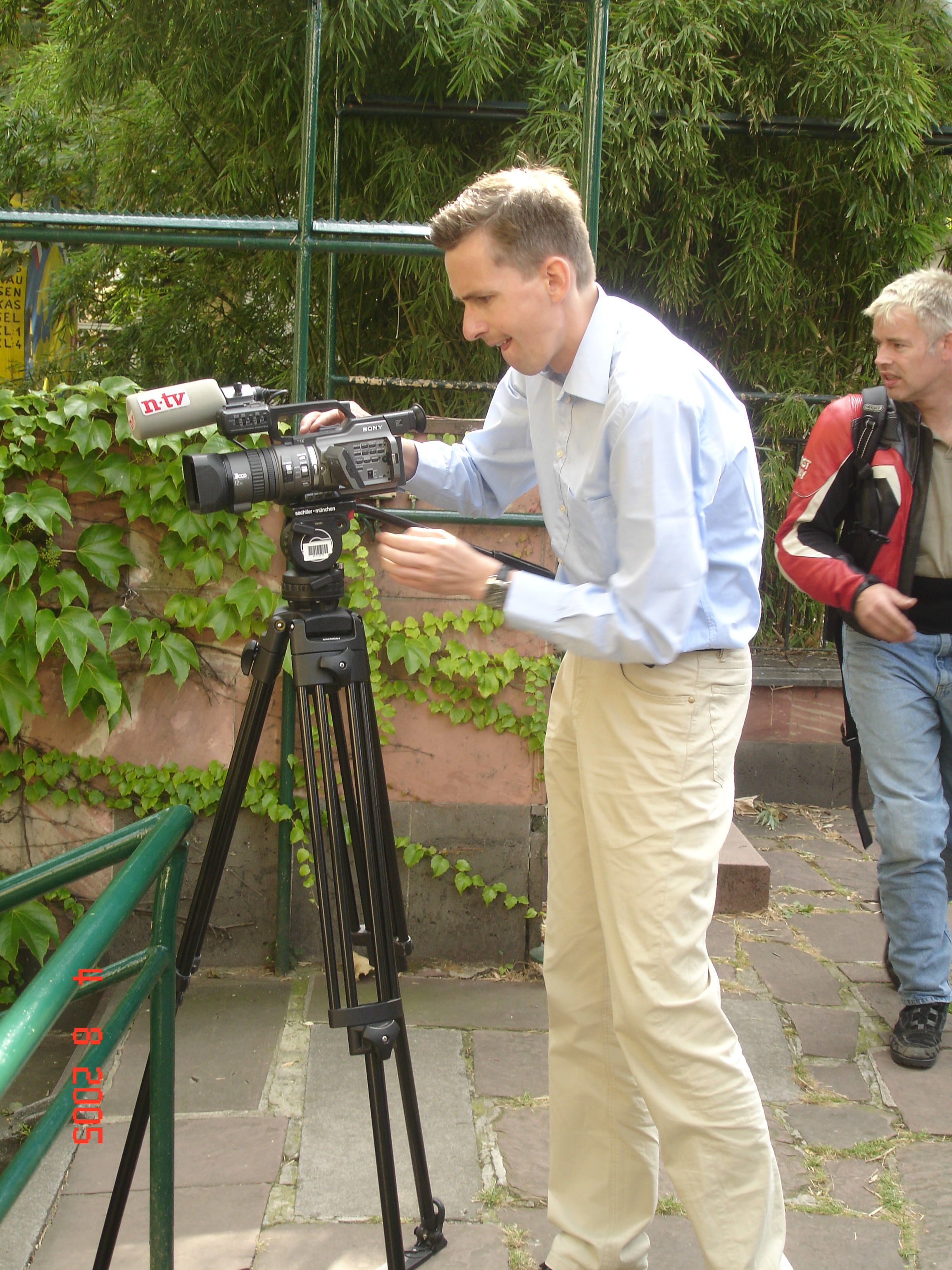 We have a lot of press coverage and there were a lot of camera people going around. This one is preparing his camera for the next shot.